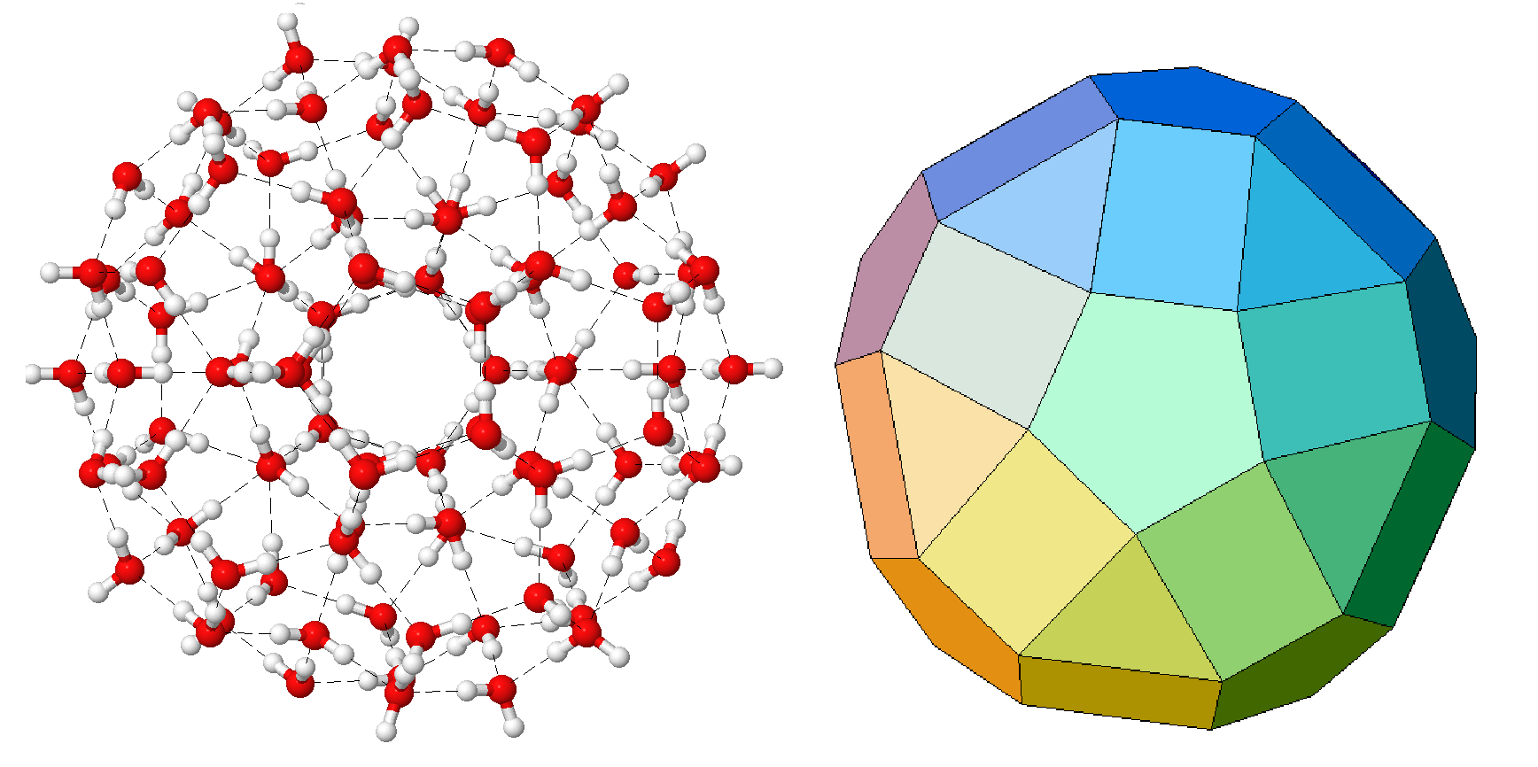 Hypothetical (H2O)100 Icosahedral Water Cluster, created using JMOL, shown with the underlying structure, taken from Java applet (licensed under CC SA3)